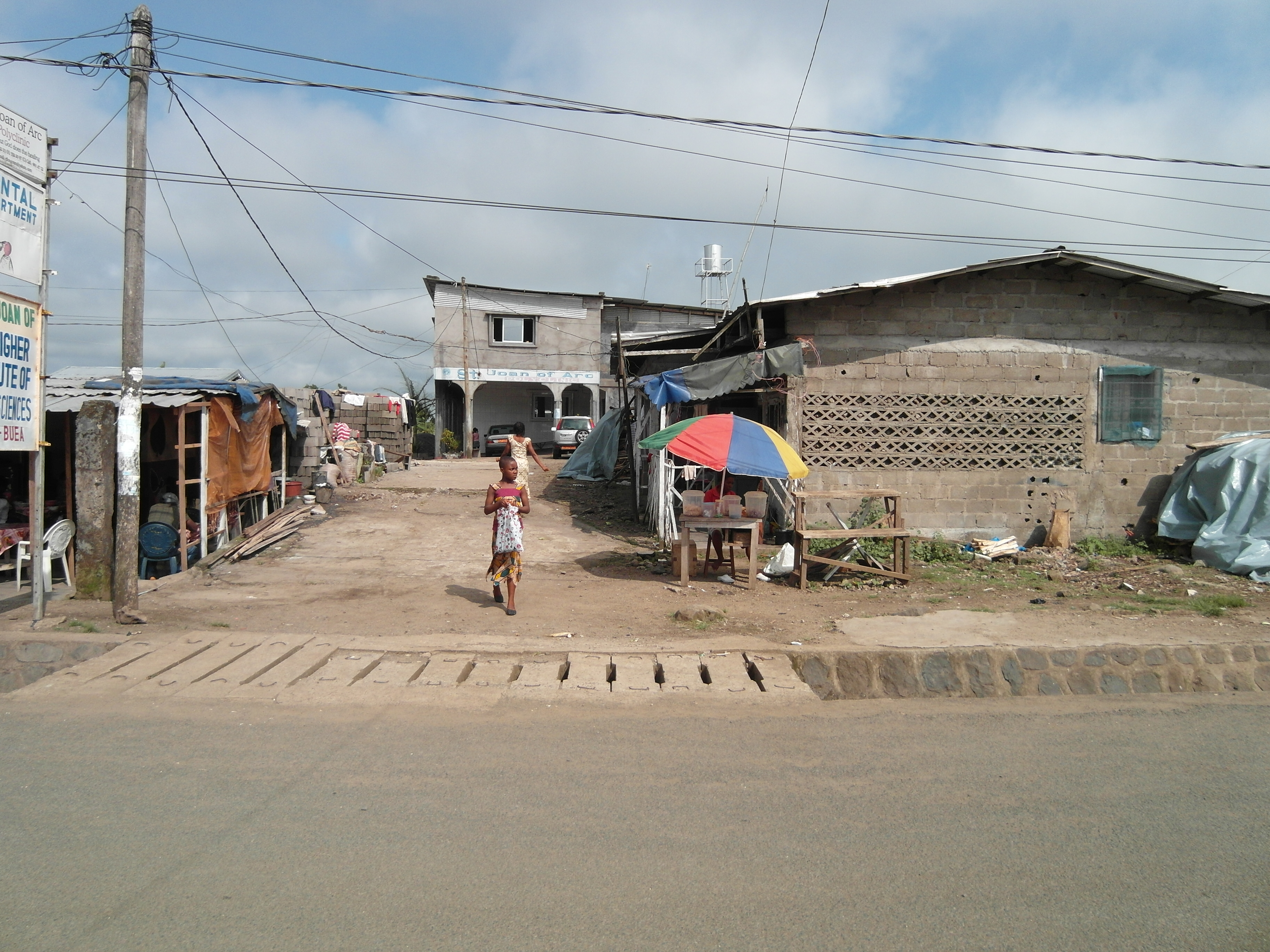 Clinic in Cameroon